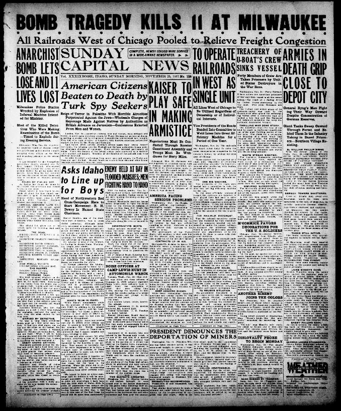 Front page of the Evening Capital News - Boise, Idaho - November 25, 1917